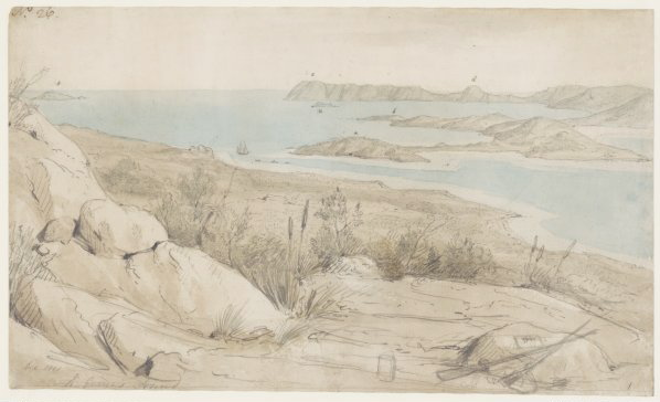 This is a digital image of a pencil and wash ; 16 x 26.7 cm., by William Westall, 1781-1850. It depicts King George George Sound in Western Australia and is titled, "King George's [i.e. George] Sound, view from the north-west ". Part of a collection of Westall's drawings. Notes at NLA Reproduced in: Drawings / by William Westall ... London : The Royal Commonwealth Society, 1962, [cat.] 61. Inscription: Dec. 1801 K. George's Sound.